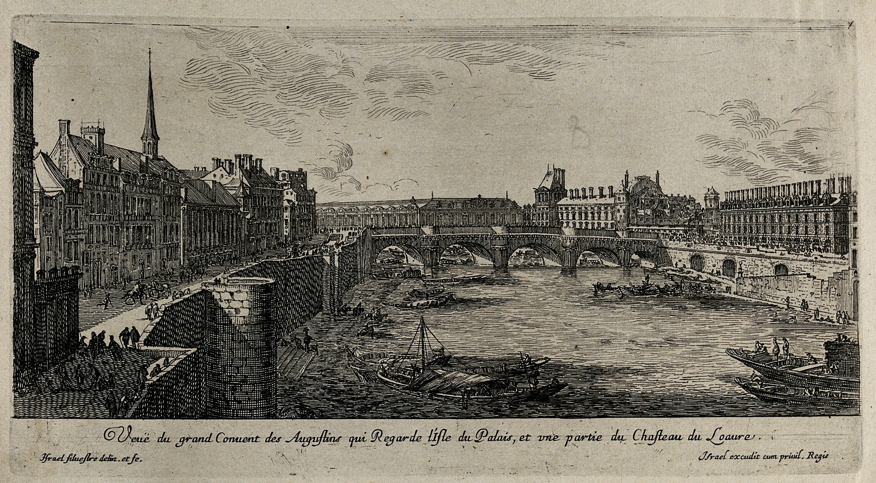 The Seine with the convent of the Augustinians and a part of the Louvre. Etching by I. Silvestre. Iconographic Collections Keywords: Israel Silvestre; Israel Henriet